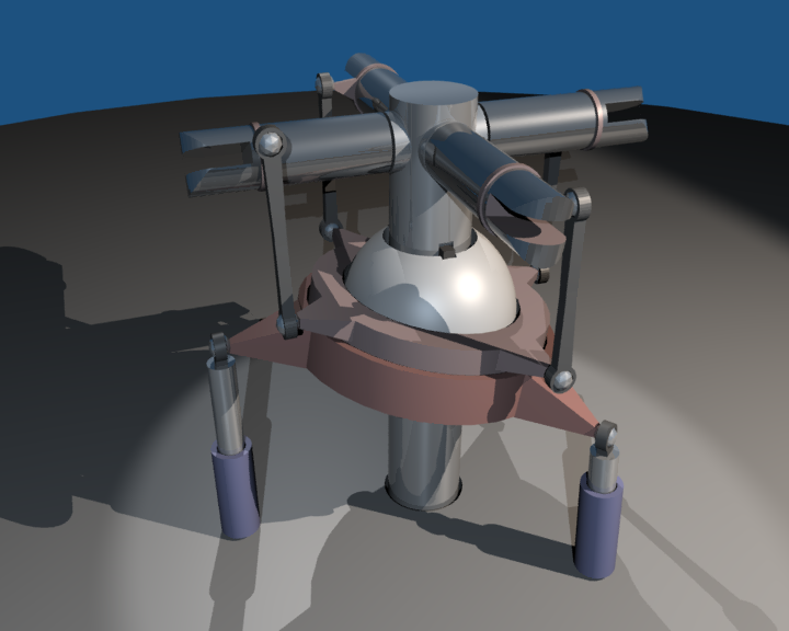 Helicopter swashplate assembly (rotors removed), tilted